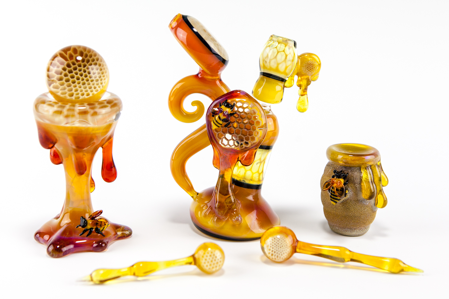 Joe Peters Functional Bubbler, Marble and Dish Set 2013 - Photo by Glass Otaku